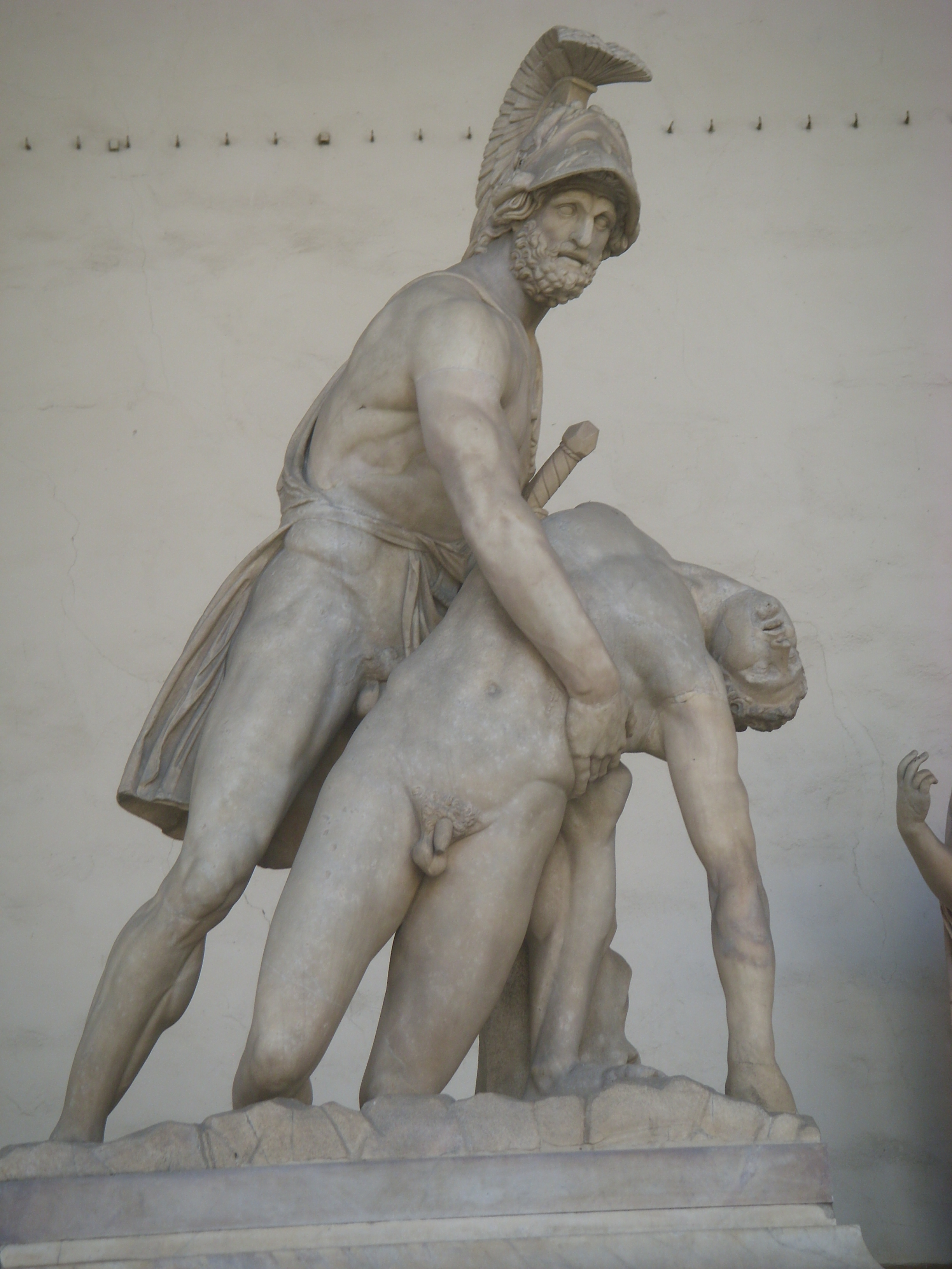 Menelaus bearing Patroclus. Statue in Loggia dei Lanzi, Piazza della Signoria, Florence